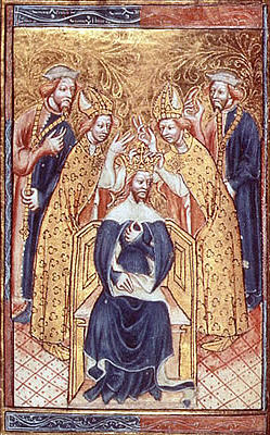 Liber regalis